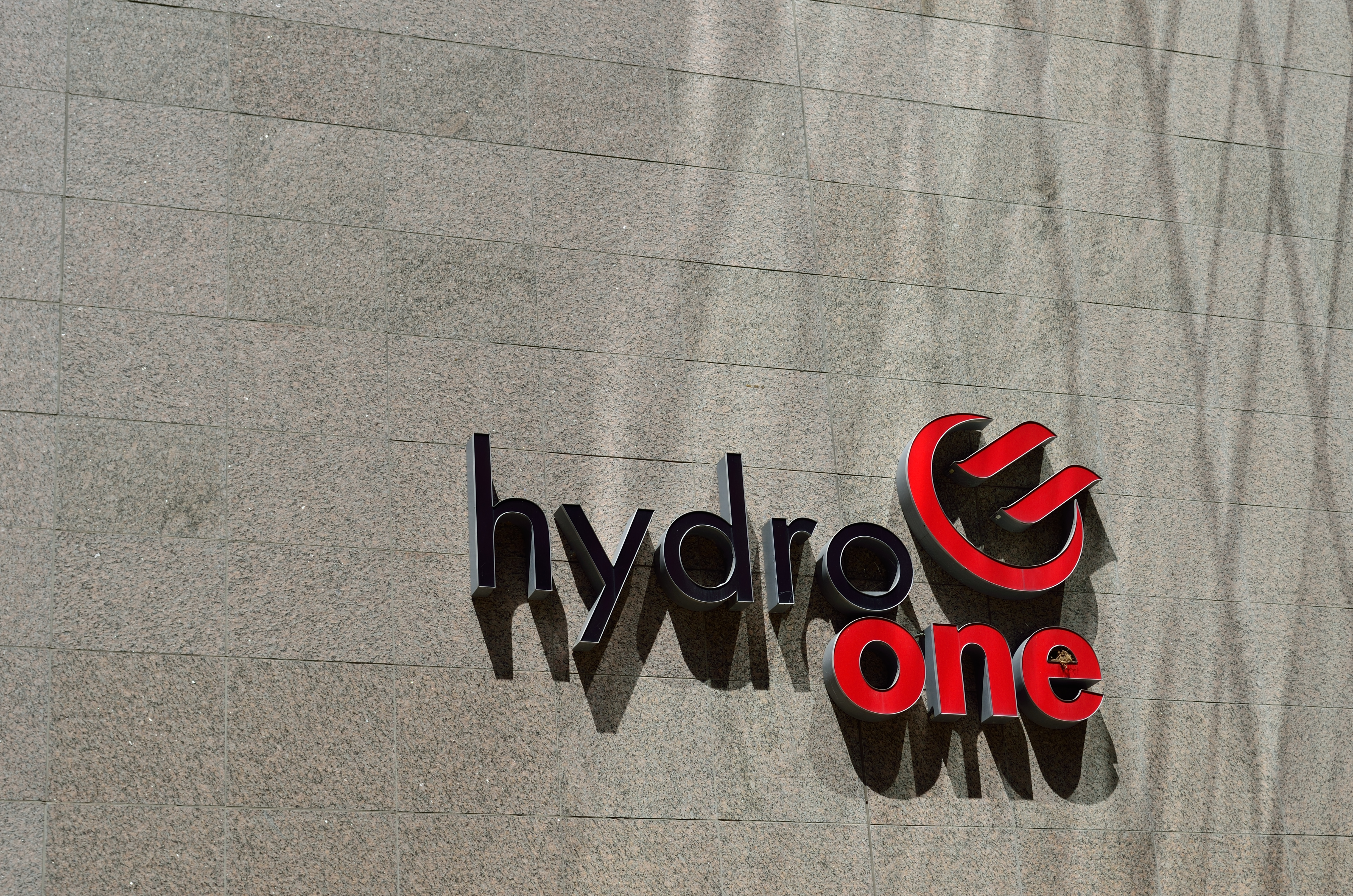 Hydro One Networks - Address: 483 Bay Street, South Tower, Toronto